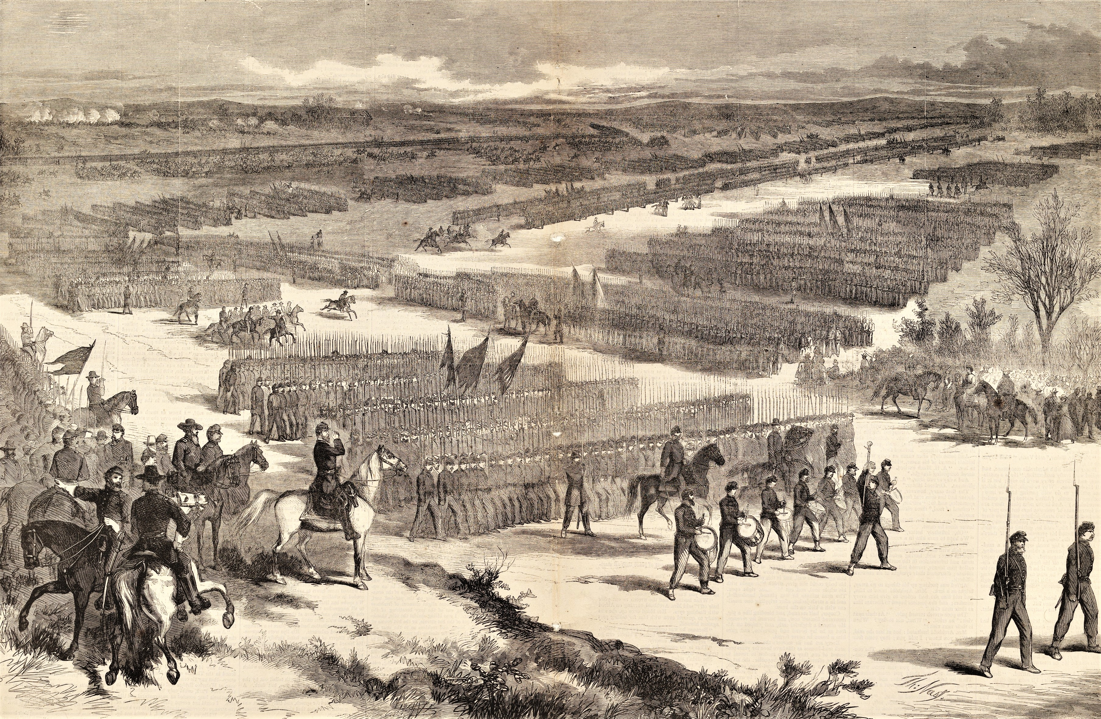 Print; Prints